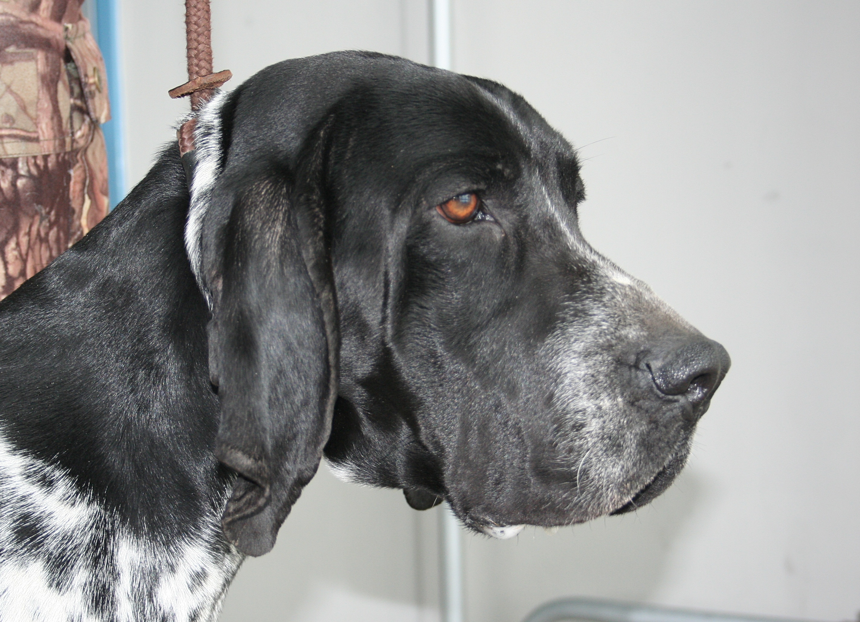 Braque d'Auvergne during International dog show in Rzeszów, Poland. Marian Surma is the breeder and owner from Poland.